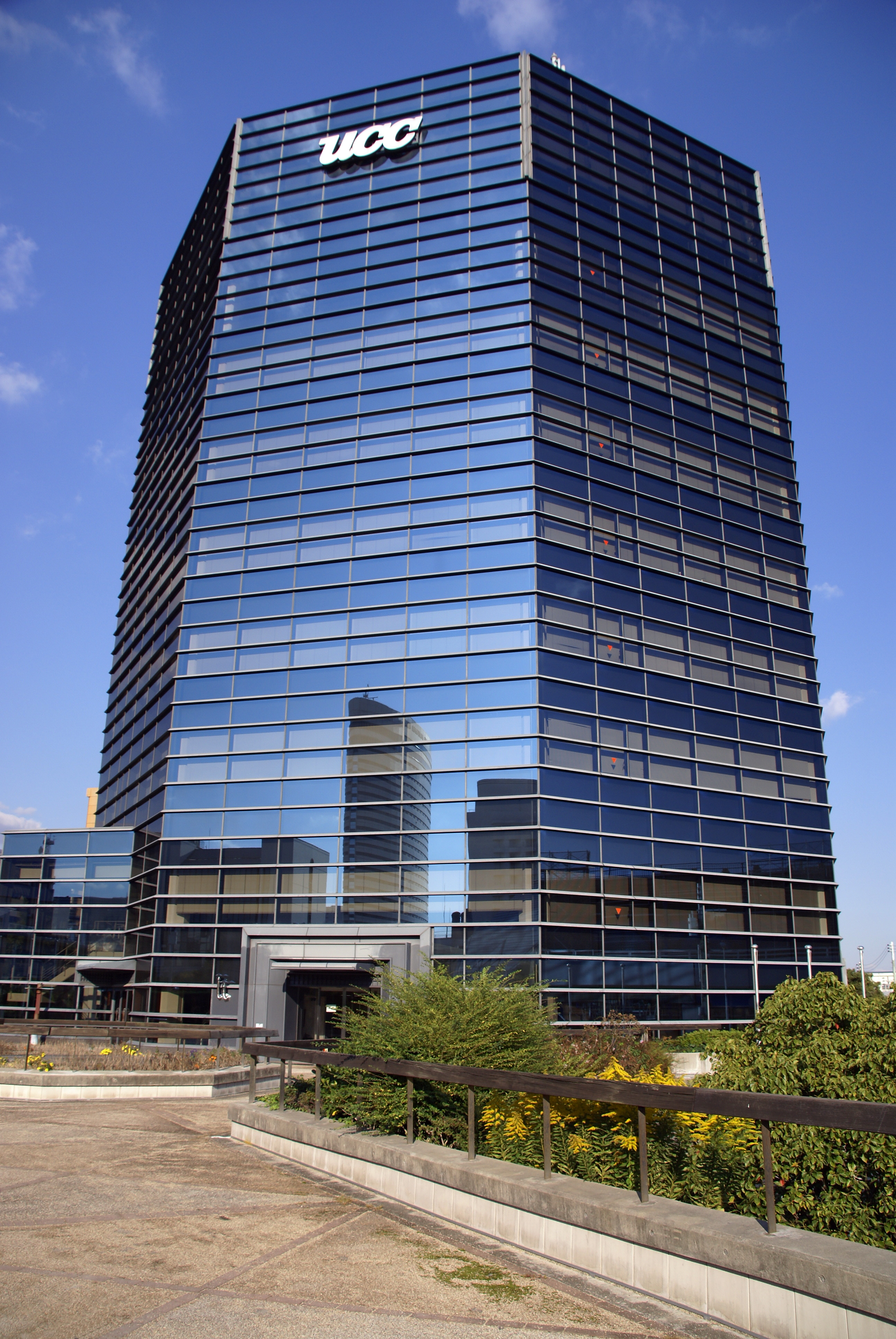 UCC Ueshima Coffee Co.,Ltd. headquarters in Kobe, Hyogo prefecture, Japan